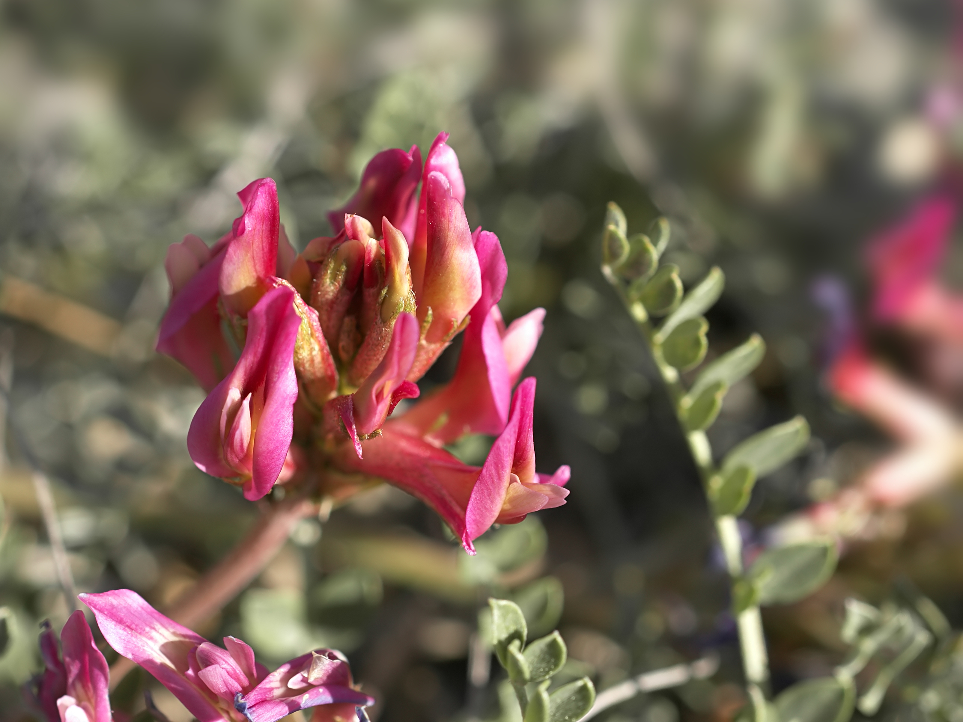 Flower near Horta de Sant Joan, Catalonia, Spain